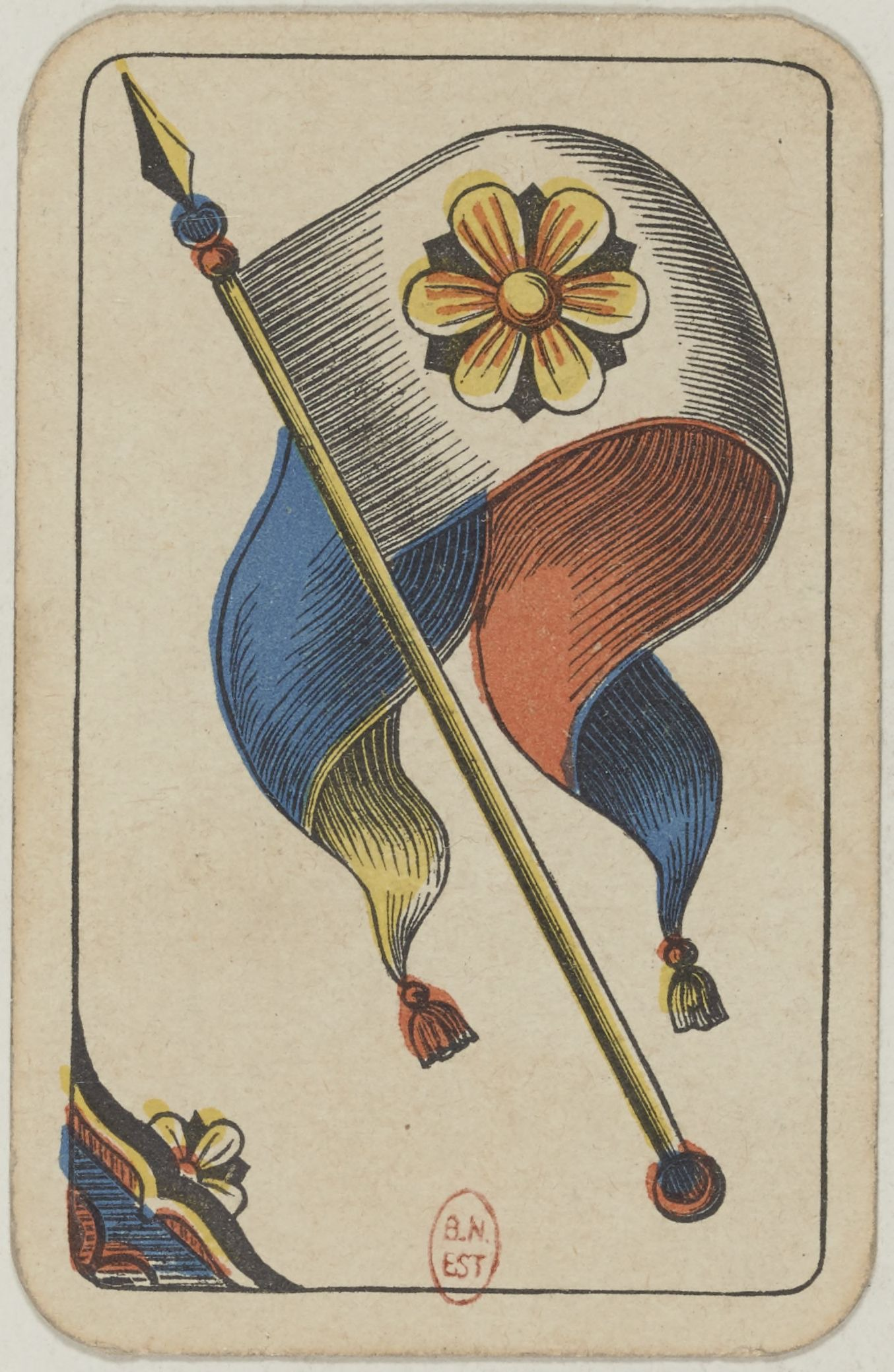 Swiss card deck, 1850: Banner of Flowers